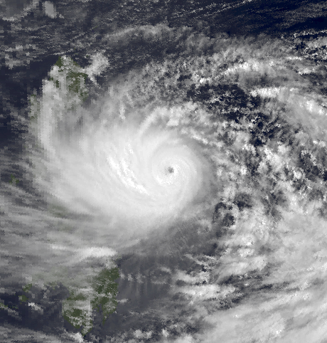 Typhoon Dot on October 17, 1985